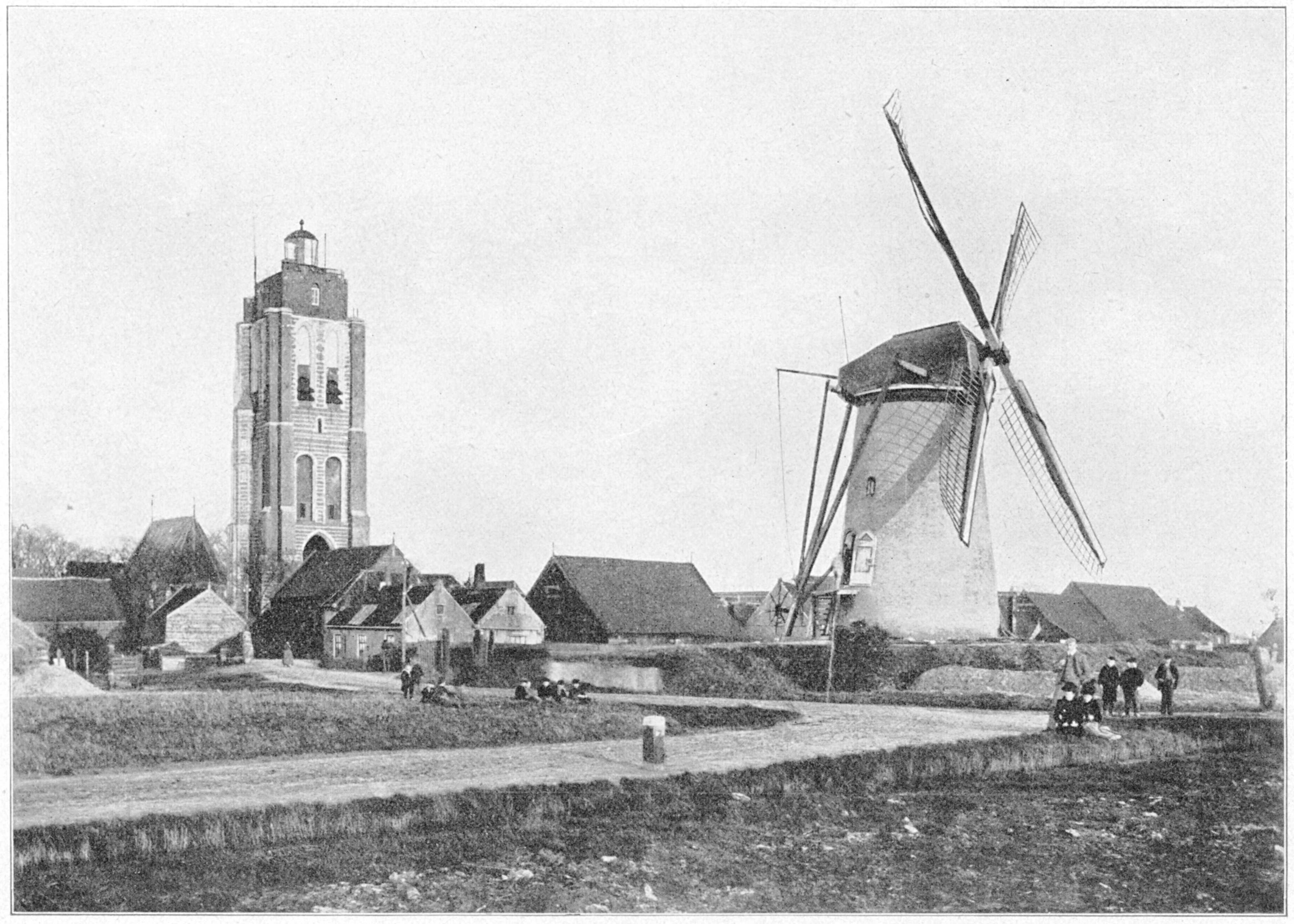 The tower and windmill of Goedereede, Netherlands. The picture is scanned from a magazine "Op de hoogte, maandschrift voor de huiskamer" from 1910, but the picture itself might be taken in 1909. The photographer is "H.L. Vogel", and he was photographer and was publisher in Goedereede. He has made more photo's from the same spot in other years.